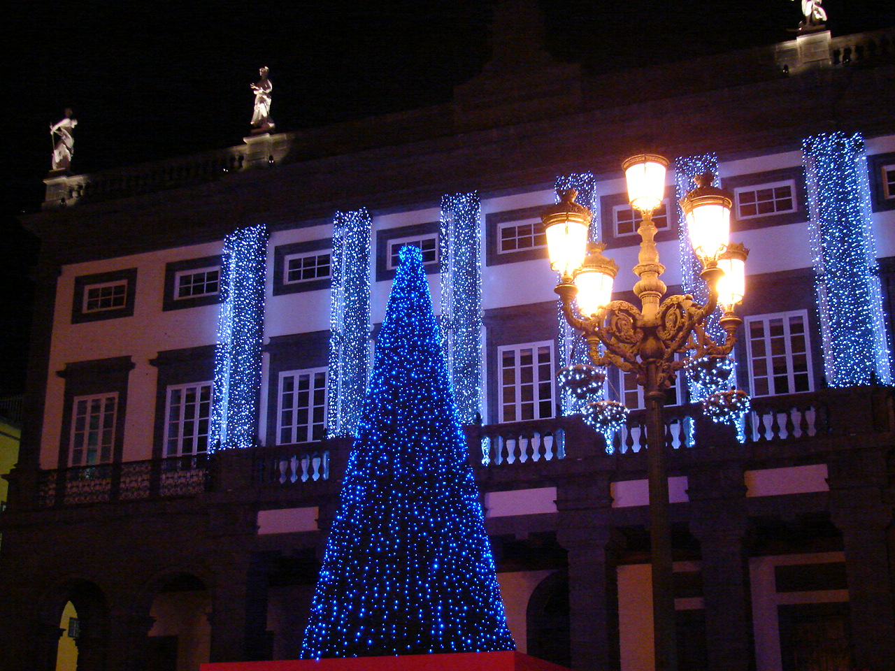 Hydrogen tree in front of City Hall.